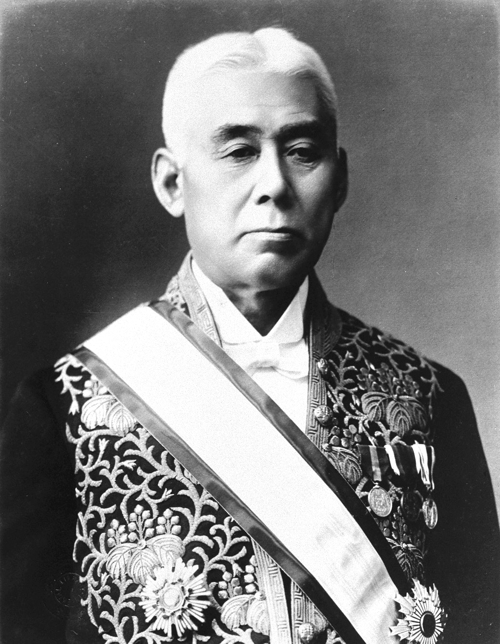 Portrait of Hara Takashi (原敬, 1856 – 1921)